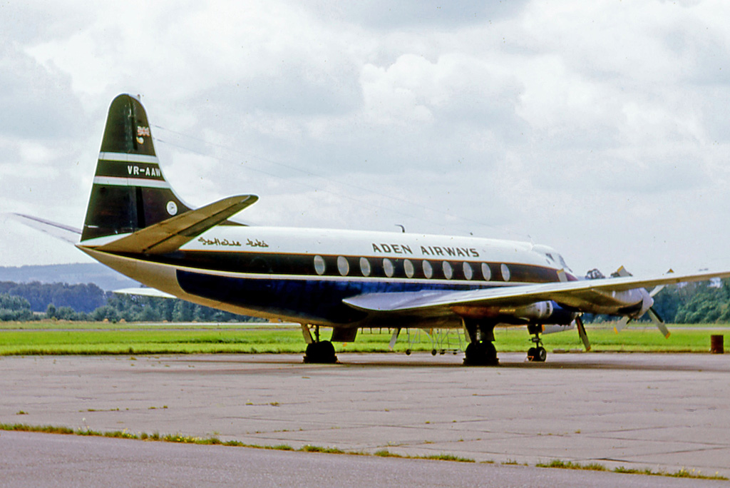 Vickers Viscount 760 VR-AAW of Aden Airways at Wymeswold in August 1967